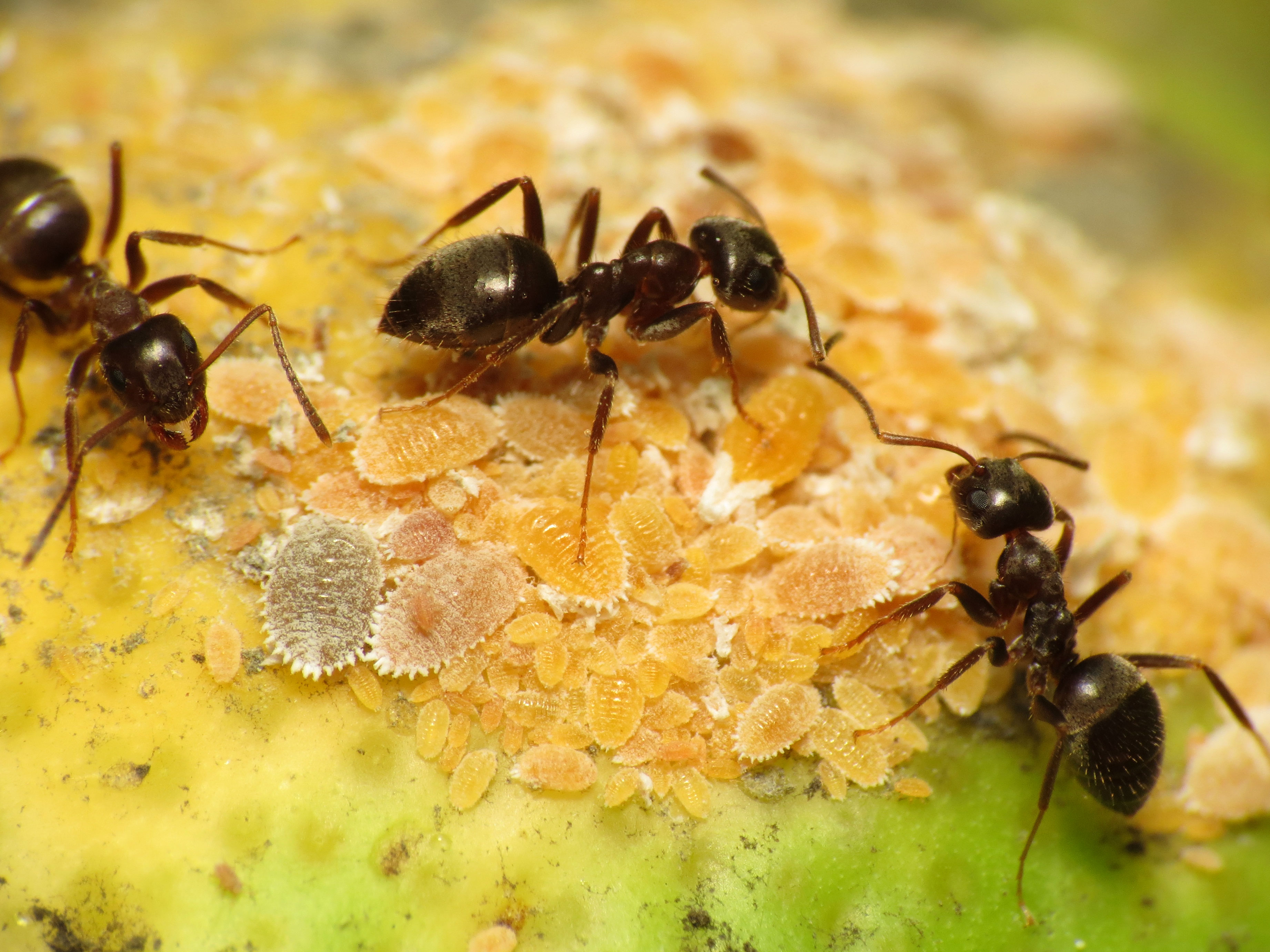 Mealybugs, possibly Planococcus citri, tended by Citronella ants, possibly Lasius niger, in a lemon tree. Els Poblets, Alicante, Spain